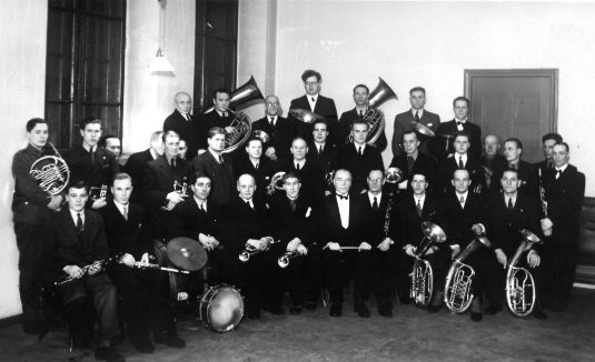 Karelian brass band of Helsinki, originally started in Viipuri by railway workers but evacuated during the Winter War. Nowadays known as Karelia-puhallinorkesteri.